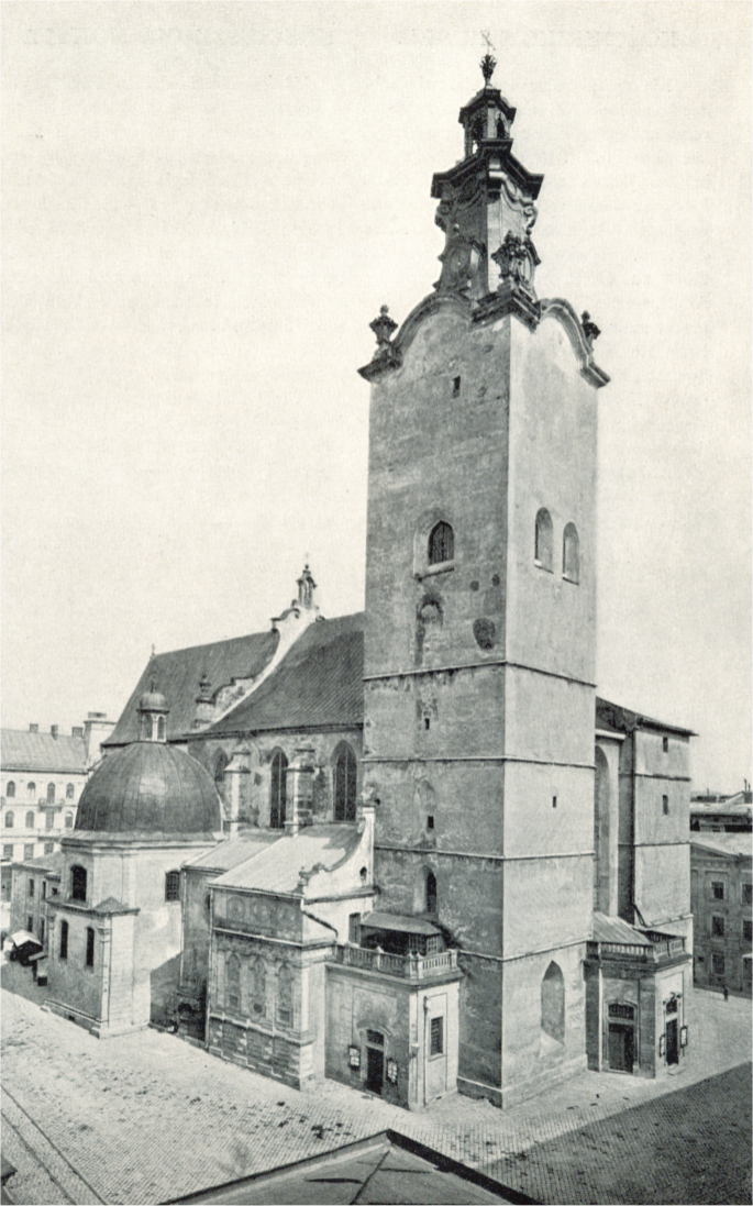 The Latin Cathedral in Lviv